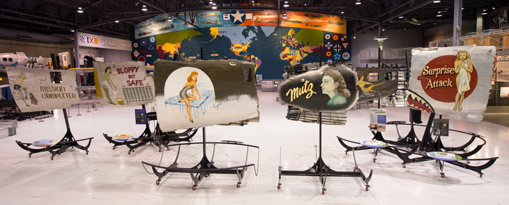 A portion of the CAF Airpower Museum's authentic Nose Art collection. Currently on loan to the EAA AirVenture Museum in Oshkosh, Wisconsin.